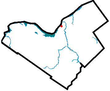 Locator map of Lebreton Flats, a neighbourhood in Ottawa.